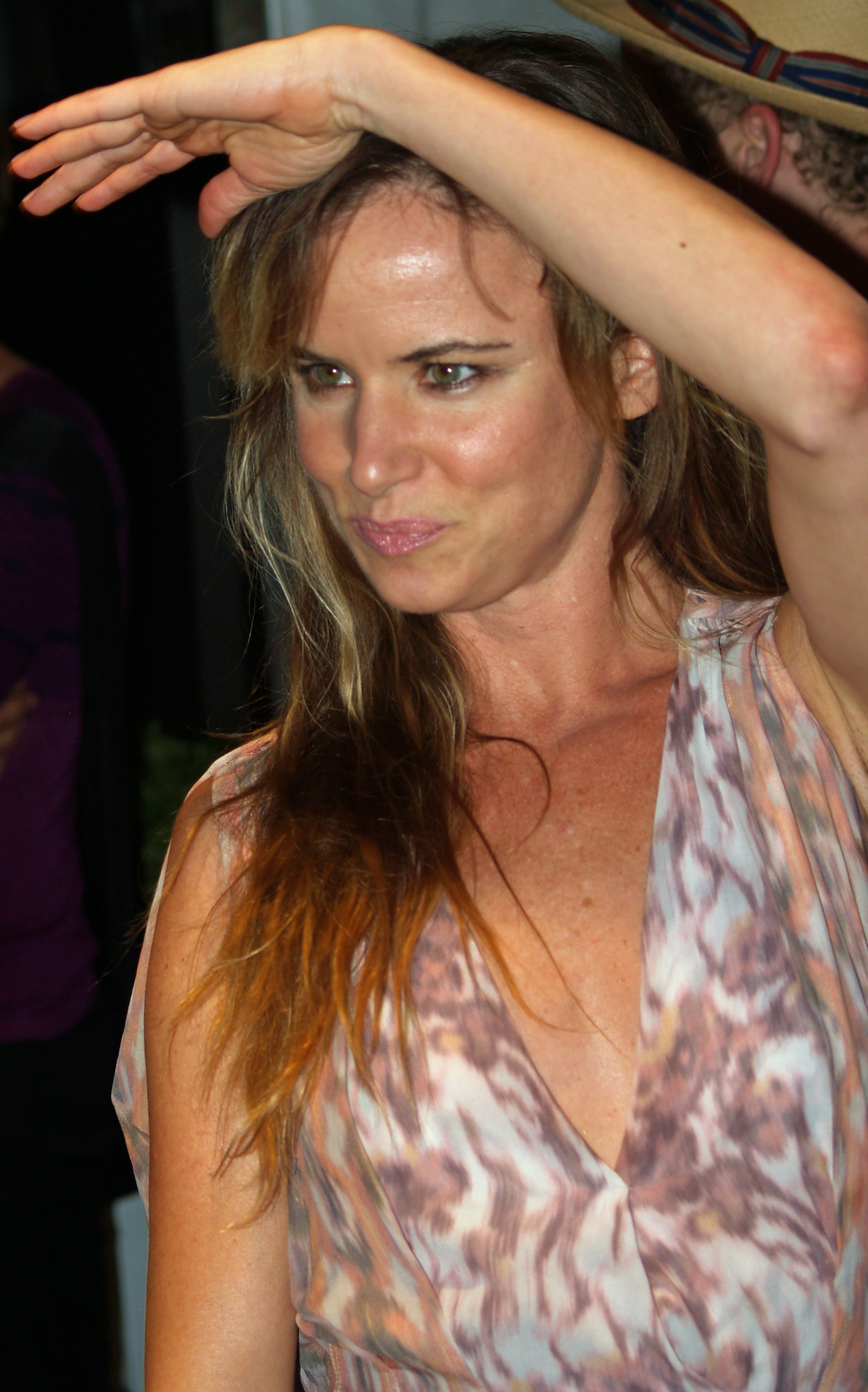 Juliette Lewis at the Spring 2009 collection Mercedes-Benz Fashion Week.